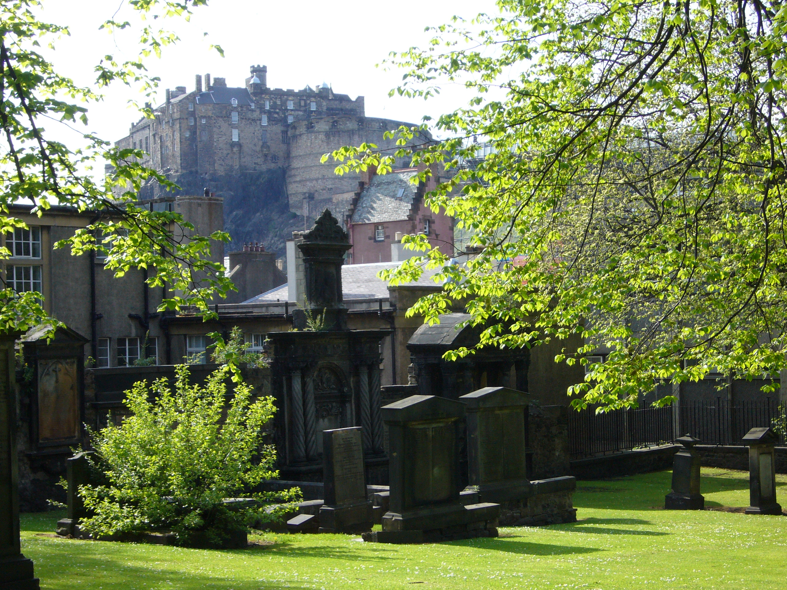 The site of the initial signing of the National Covenant in 1638 which presumed a direct relationship between Scottish presbyterianism and God. It implied the abolition of episcopacy and the authority of the King in church affairs in favour of an independent Church of Scotland. The attempt to limit monarchical power challenged the inherited, mediaeval political power structure based on rule by Divine Right, and in the long term profoundly shaped constitutional developments in Britain. The 19thC historian, Andrew Lang, wrote, "Scotland was once more in the happy posture of Israel of old, and enjoyed a definite legal instrument, binding on all posterity, and regulating the relations between itself and the Creator of the Universe. Nothing was absent but the signature of the other high contracting party". "Upon Wedensday, 28 Februar, that glorious mariage day of the Kingdome with God... The noblemen haiving apoynted the body of the gentrie to meit at tuo hours in the Grayfrear Kirk to hear bot copyes of it read and to aunsuear objections, (...) I resolved to read and did read the parchment itselth publikly, quhilk, after som feu doubts of som, was approvin; and, after ane divine prayer most fit for the tyme and present purpose maid be Mr. Al.[exander] Henderson, The Covenant was subscryved first by the noblemen and barons al that night til 8 that night. On Foorsday [Thursday] morning I had wryting in the night foor principal copyes in parchment; at nyn hours it was subscryved be al the ministerie; at tuo hours be the burroues [burghs]. On Frayday, in the College Kirk, after ane sensible exhortation (...) and ane pithie prayer forcing the [thee] to tears, thou read it publikly befor the people of Edr. [Edinburgh], quho presently fell to the subscryving of it al that day and the morrou." -- Diary of Sir Archibald Johnston of Wariston, 1637-39 [Note: After the restoration of Charles II, Johnston was executed at the mercat cross of Edinburgh in 1663]